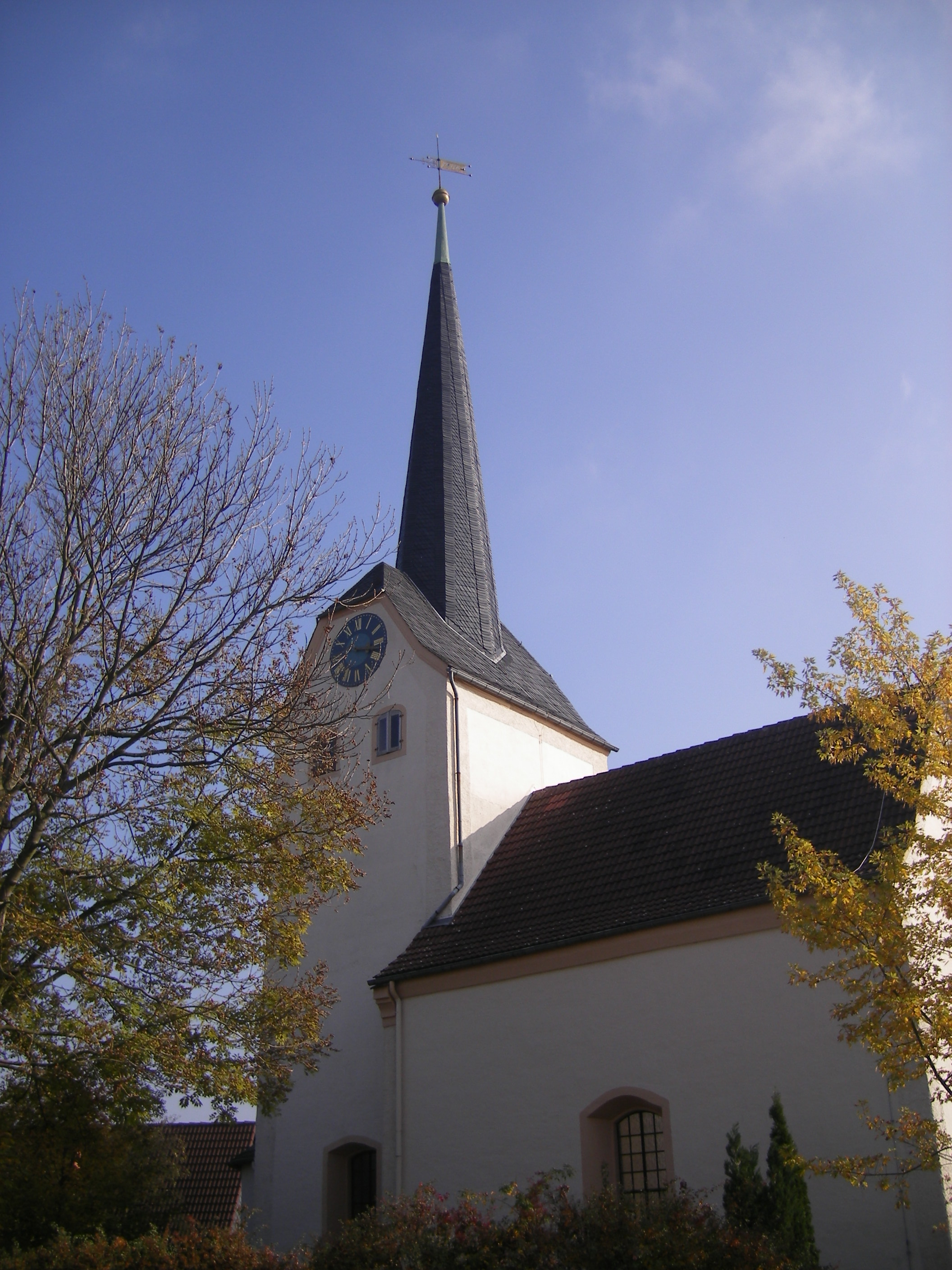 The church in Wettelswalde, municipality Thonhausen near Schmölln/Thuringia in Germany